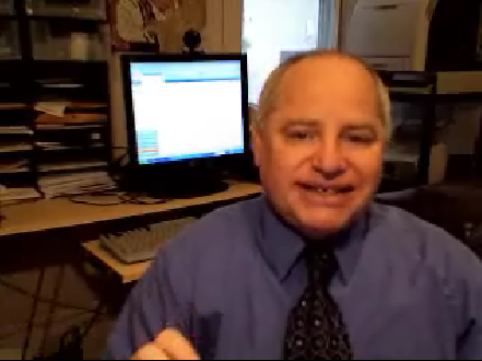 Joel Spitzer giving the video lesson, "I want one!"